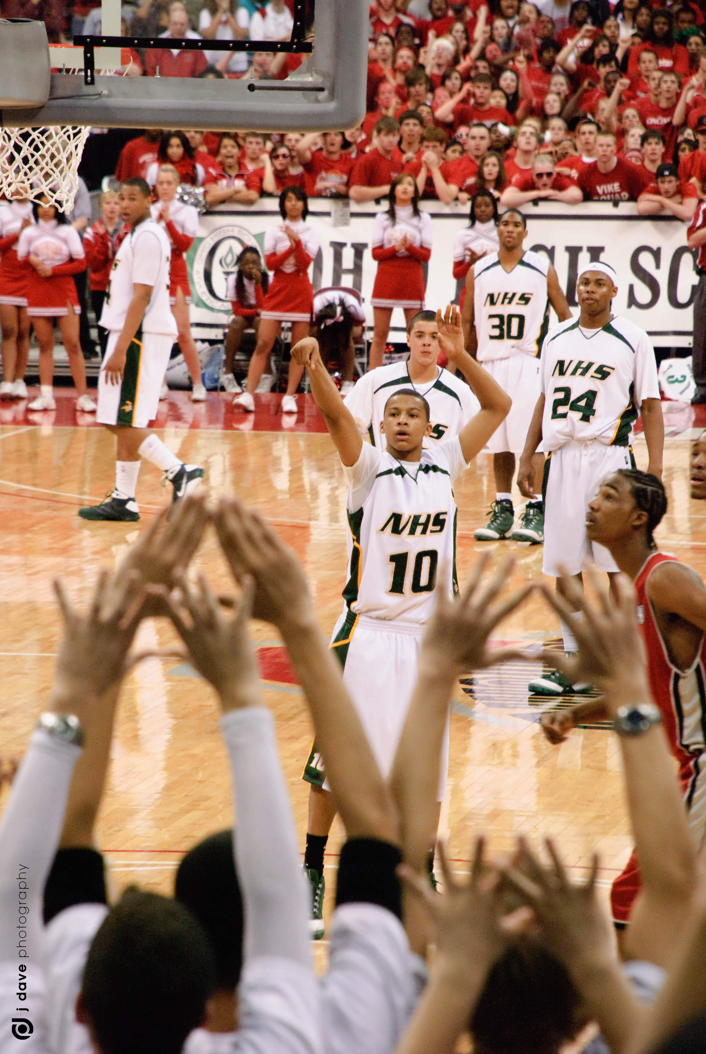 Trey Burke shooting a free throw during the 2009 Ohio State Championship with Jared Sullinger walking in the background.